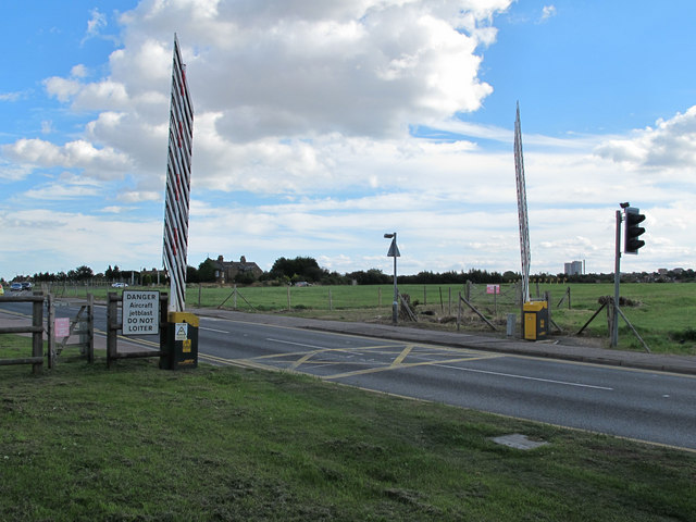 Beware of low flying aircraft The barriers are closed when large jets come to Southend Airport, as the end of the runway is close to the road.